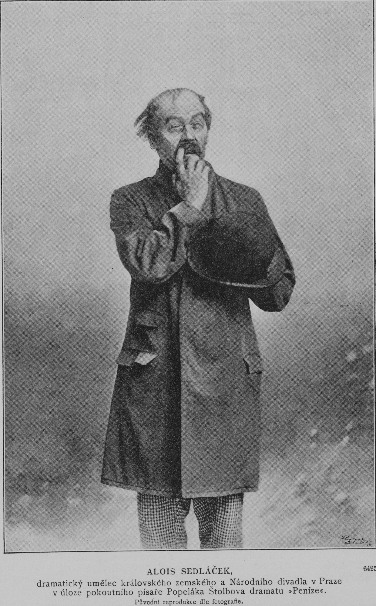 Portrait of Alois Sedláček (1852 - 1922), Czech actor.